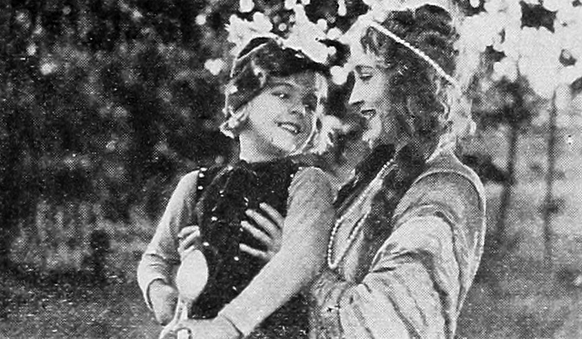 Arthur Trimble and Bessie Love in the film serial "The Strange Adventures of Prince Courageous" (1923), directed by Frederick G. Becker